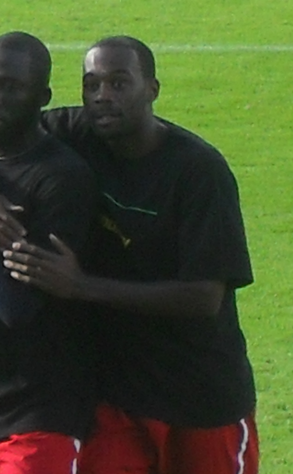 Jamal Fyfield before York City's match against Bath City at Bootham Crescent, York on 16 October 2010